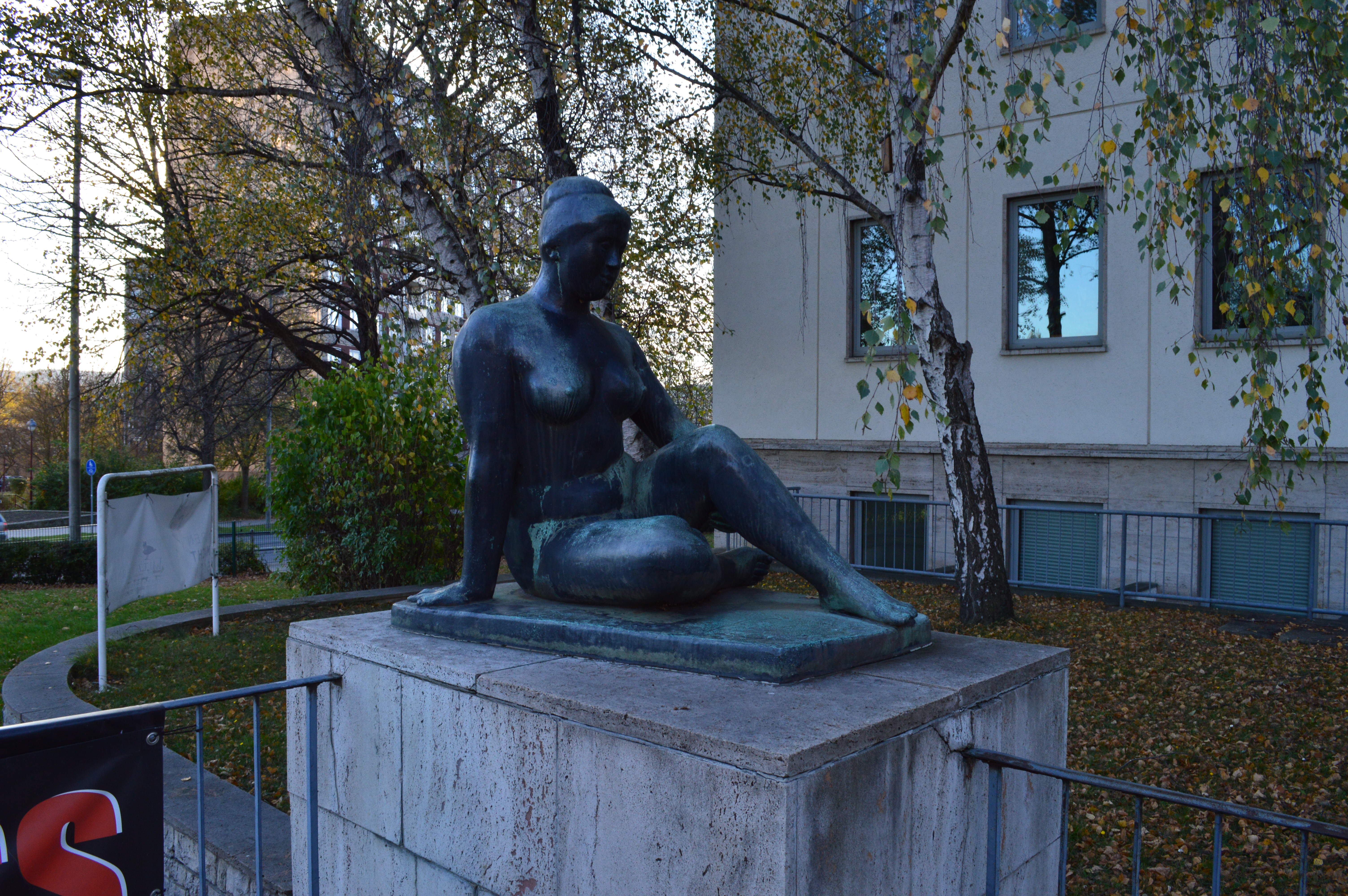 Cultural heritage ensemble Bieblacher Hang in Gera, Germany, in October 2013: Sculpture Großer Mädchenakt (or Sitzender weiblicher Akt) by Harri Schneider (1965) in front of the former Wismut polyclinic at Johannes-R.-Becher-Straße 1